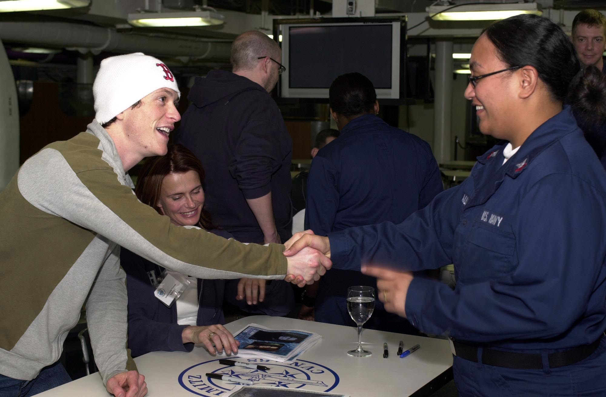 Pacific Ocean (Mar. 21, 2005) - Jonathan Tucker, left, and Serena Scott Thomas, whom star in the new film, "Hostage", sign autographs and greet sailors on the aft mess decks after a premiere screening of “Hostage” aboard the nuclear powered aircraft carrier USS Nimitz (CVN 68). Nimitz and Carrier Strike Group Eleven (CSG-11) are currently conducting a Joint Task Force Training Exercise off the coast of southern California.